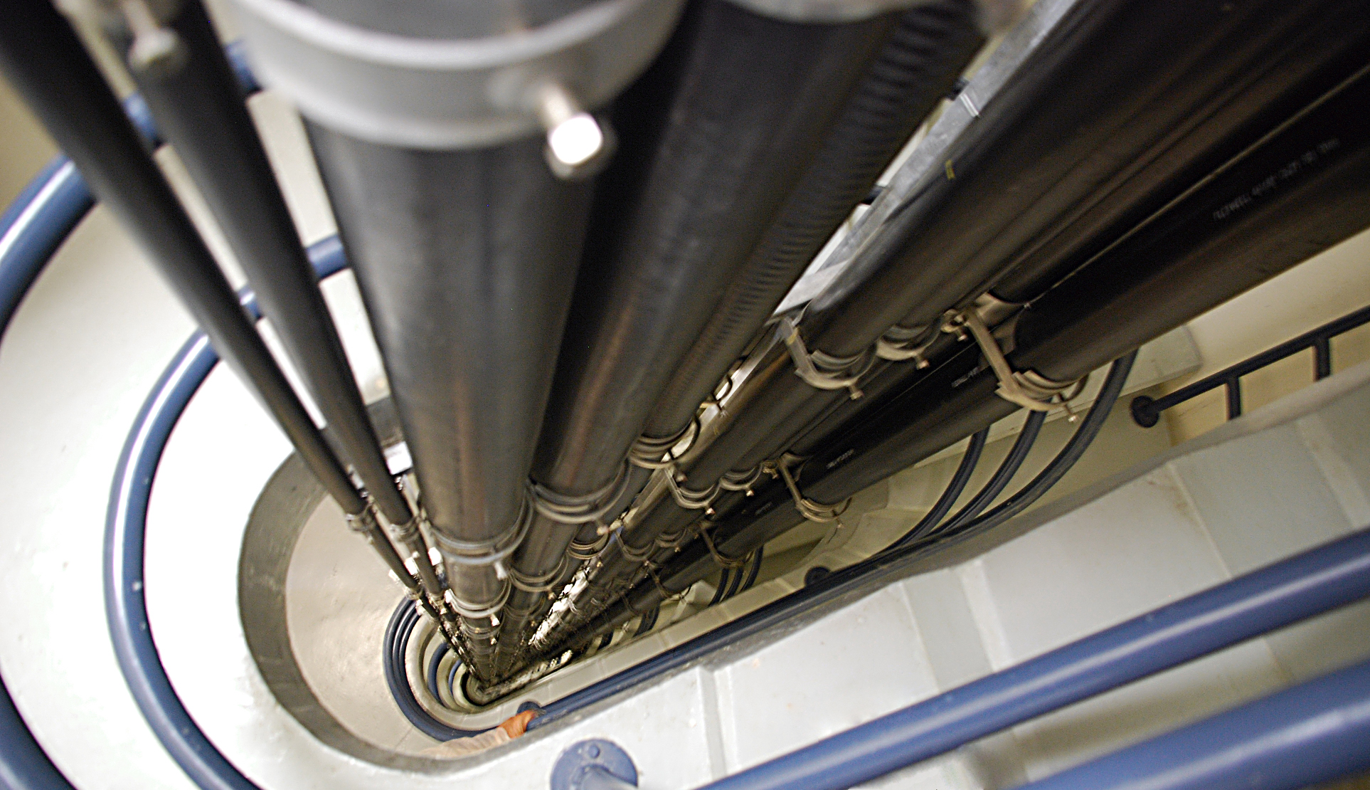 staircase and cable channel inside of the television tower St. Chrischona